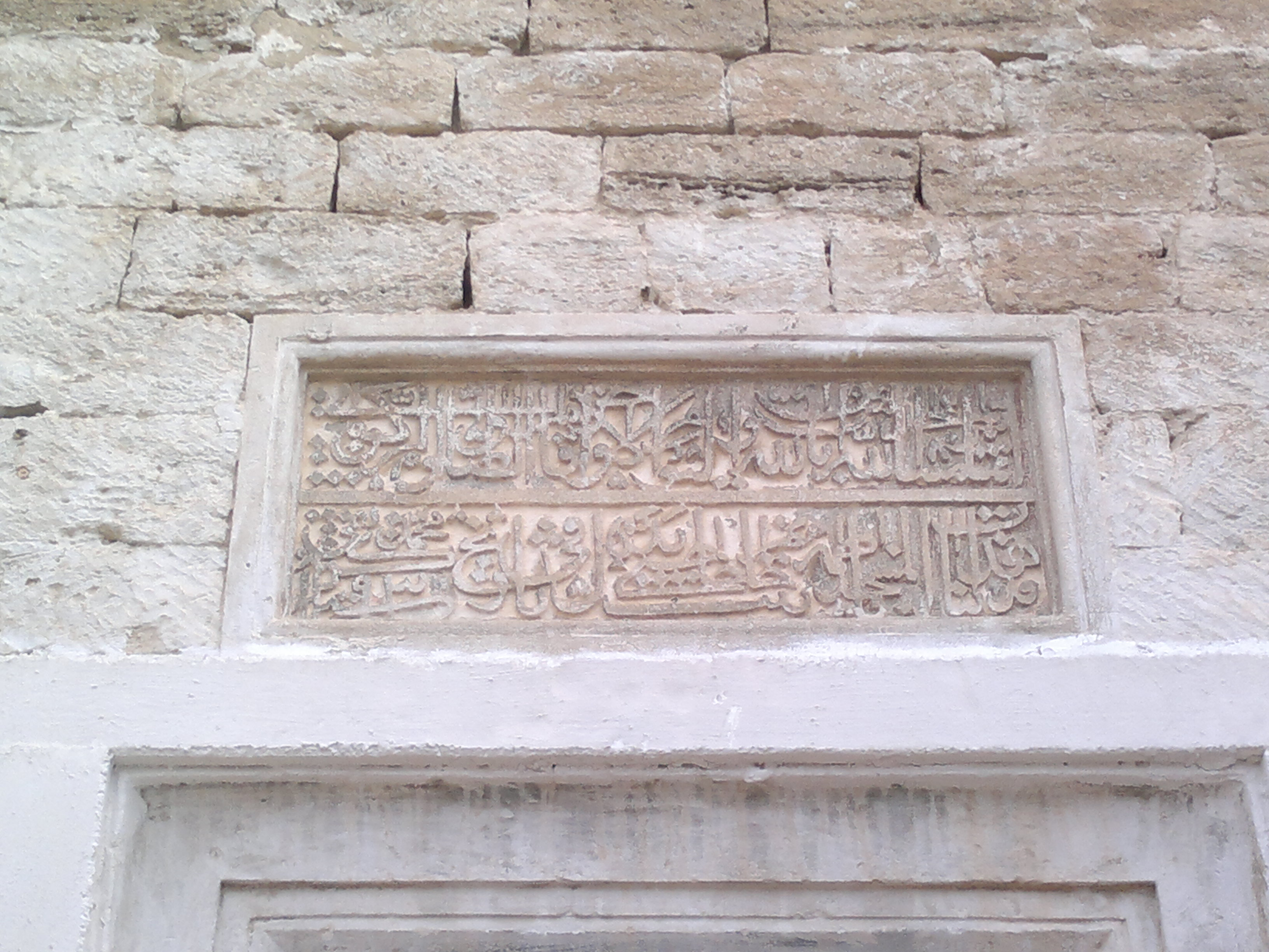 Nizameddin Mosque in Amirjan